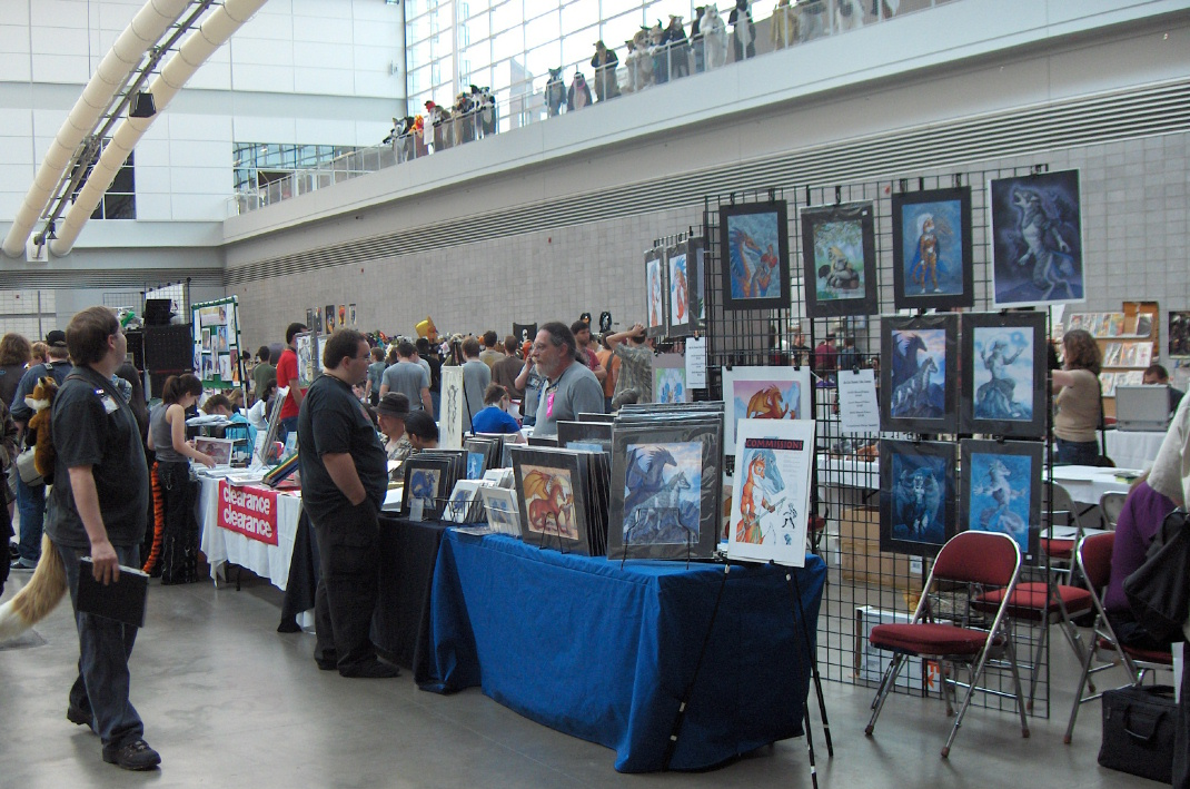 The Dealers Den at Anthrocon 2006; the fursuit parade is visible along the top. The artist of the works to the right is Susan Van Camp.